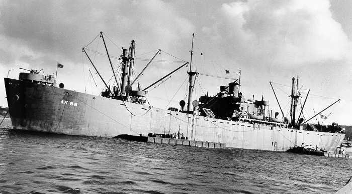 Sterope (AK-96) unloading cargo onto pontoons at Guadalcanal, 1943 US Navy photo from DANFS